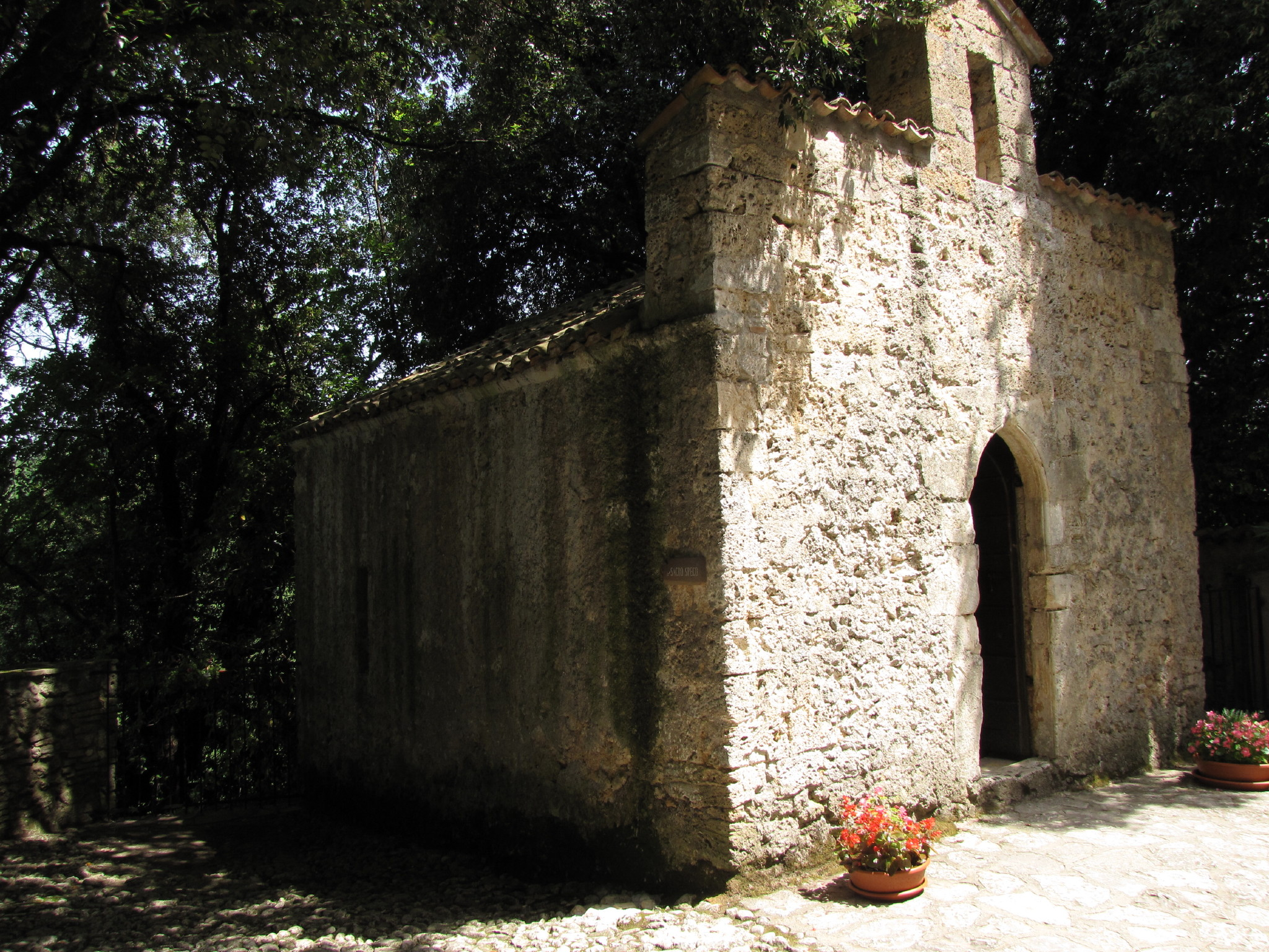 Franciscan sanctuary of Fonte Colombo in Rieti (Lazio, Italy)